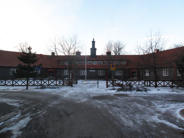 Bagaregårdsskolan, Göteborg.